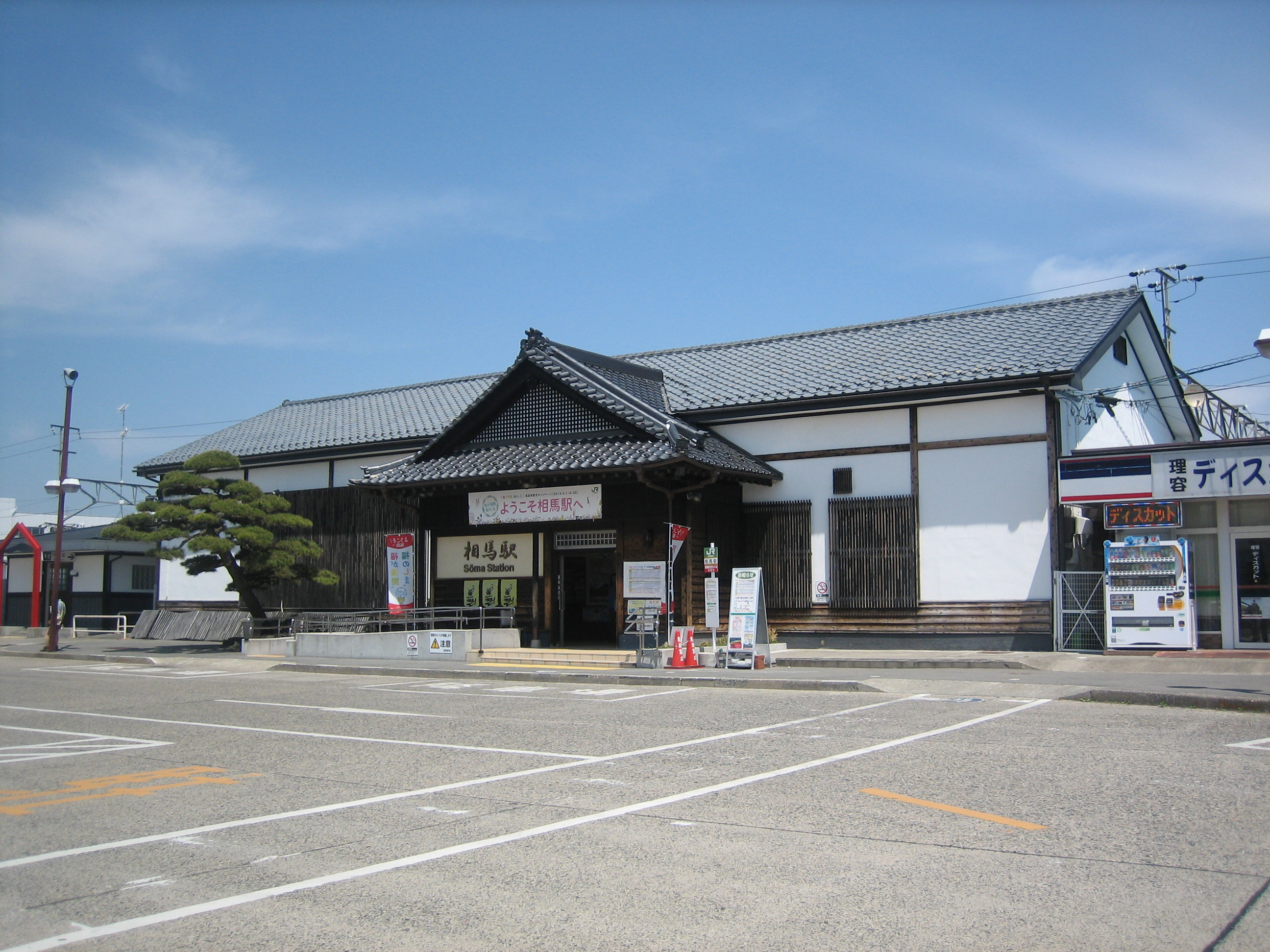 Sōma Station on the Joban Line in Fukushima Prefecture, Japan